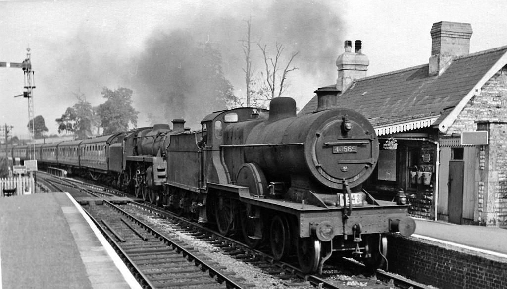 Midsomer Norton Station, with Down express. View NE, towards Bath; Somerset & Dorset Joint line (Bath Green Park - Bournemouth West). The 09.35 Sheffield (Midland) to Bournemouth West Summer Saturday express is headed by LMS 2P 4-4-0 No. 40569 piloting BR Standard 5MT 4-6-0 No. 73051 and is attacking the 8 miles at 1-in-50/60 climb up from Radstock to the Mendips summit at Masbury. The station closed on 7/3/66 along with the whole S&D line, but since 1992 has become the headquarters of the Somerset & Dorset Heritage Trust, who now run trains part of the way up towards Chilcompton.